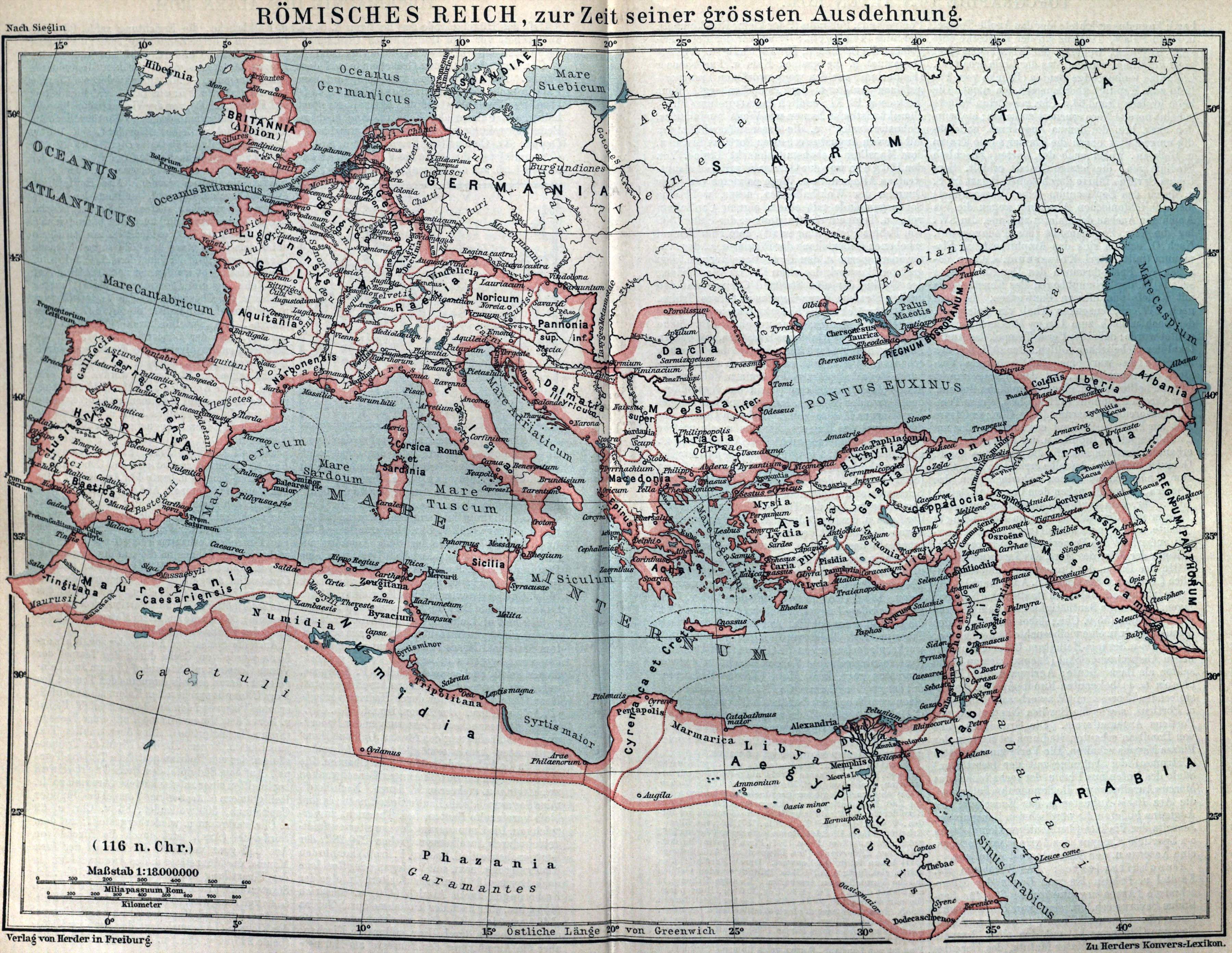 The Roman Empire at it's greatest extend.